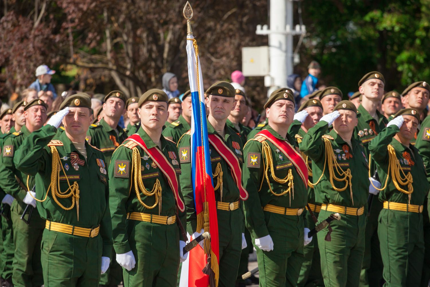 The ceremonial events devoted to the 72nd anniversary of the Great Victory in Tiraspol.